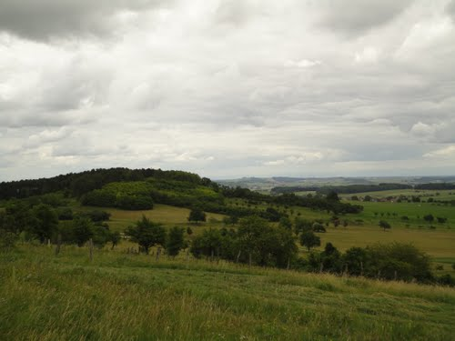 Hill of Galgenberg, Bouxwiller, Bas-Rhin, France